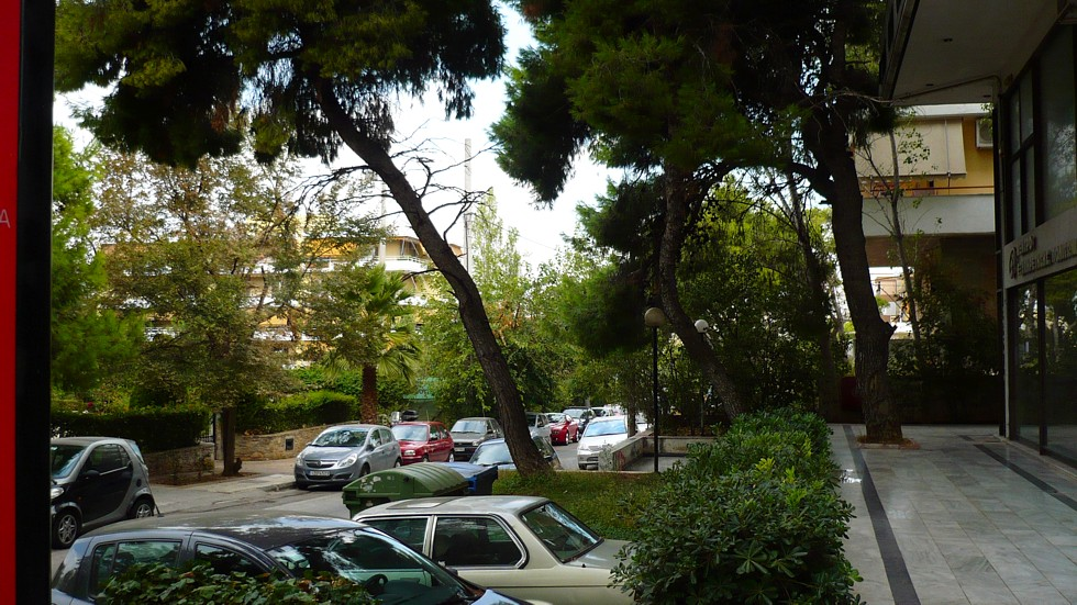 Center of Pefki